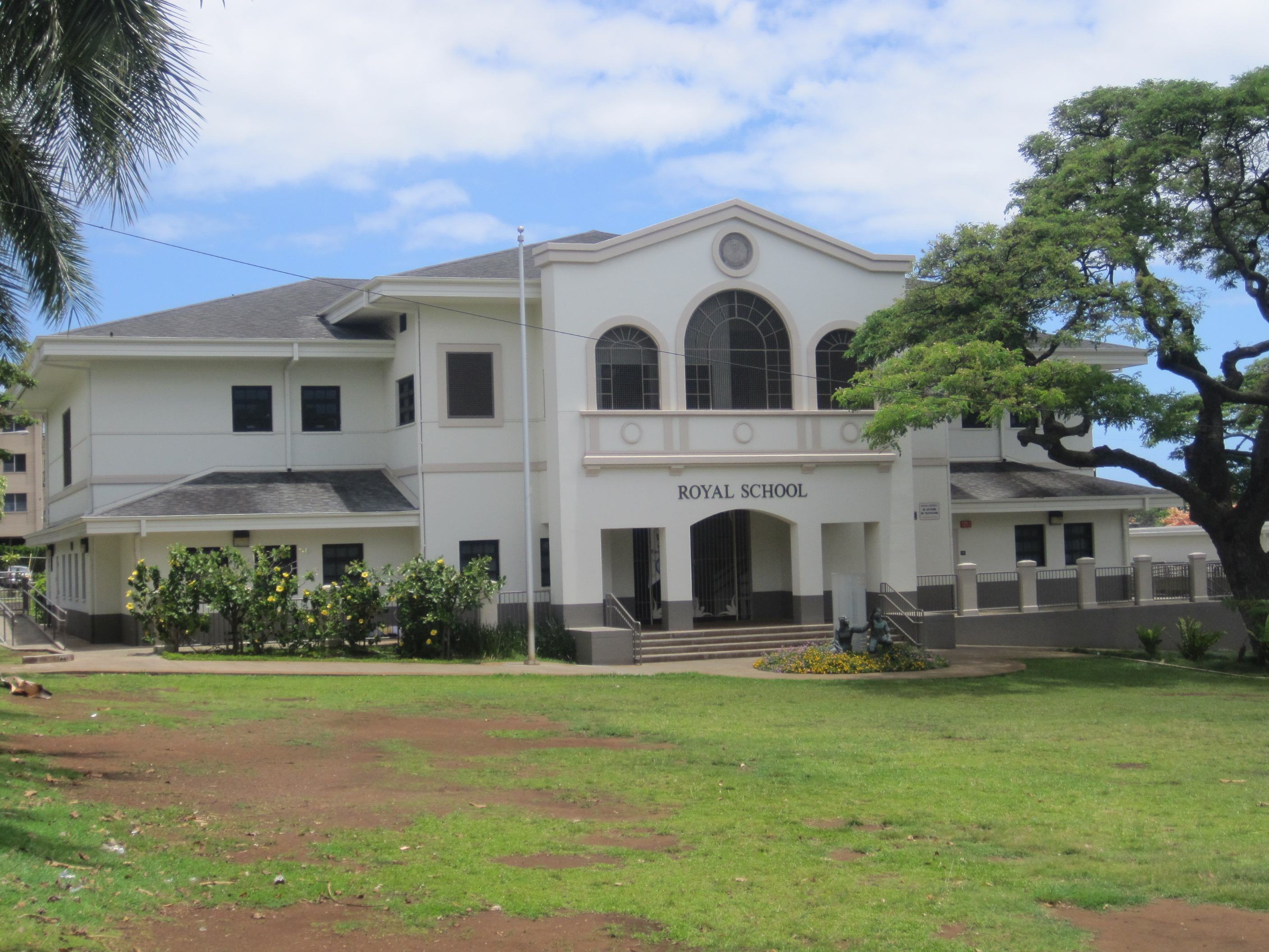 Administration building, Royal School, Honolulu: est. 1839 as Chief's Children's School where Iolani Barracks now stands; moved in 1850 and opened to commoners; relocated to current site to accommodate highway; current admin/library building erected in 2000, designed to resemble demolished main building